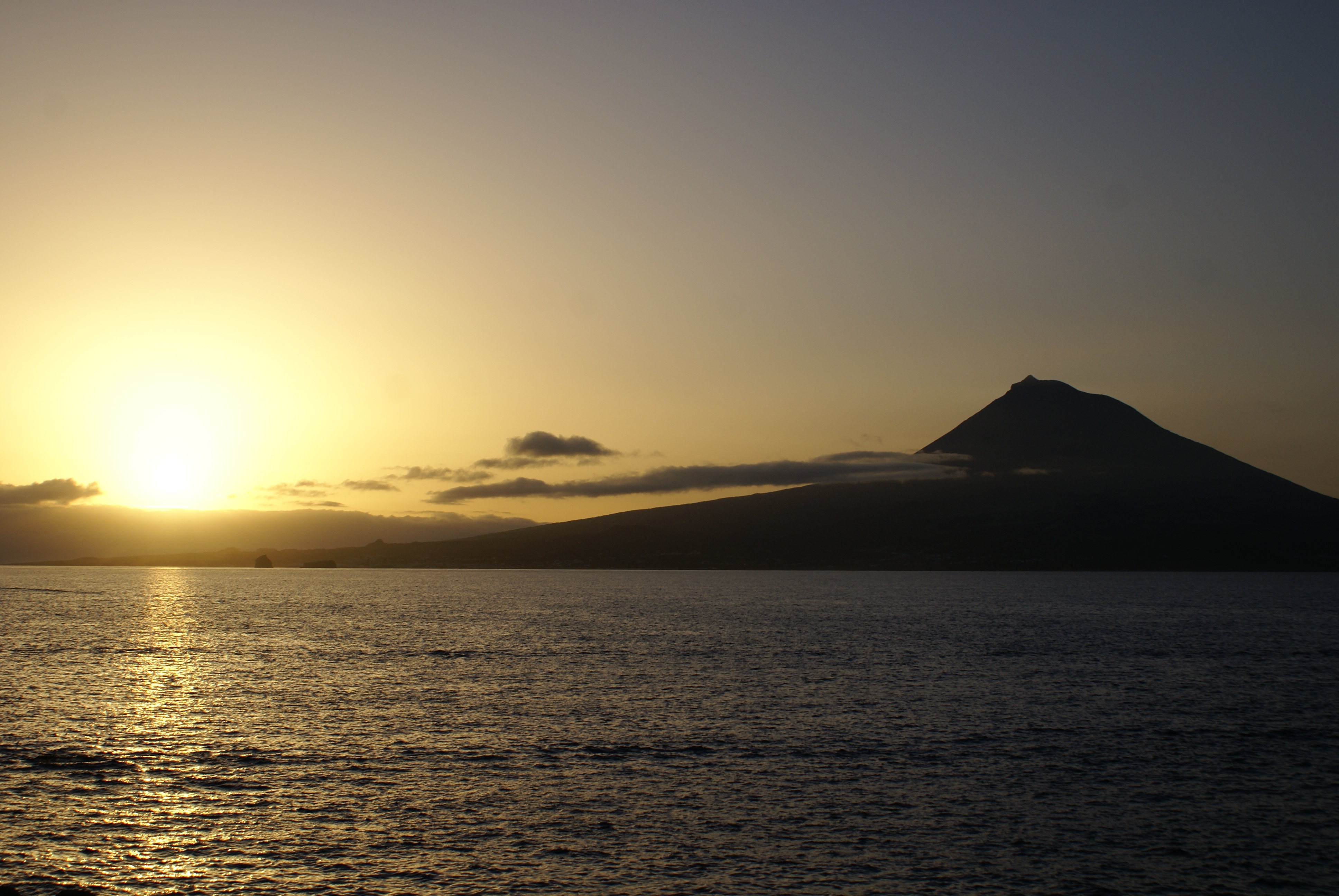 The sunrise behind the island of Pico (Azores), Portugal